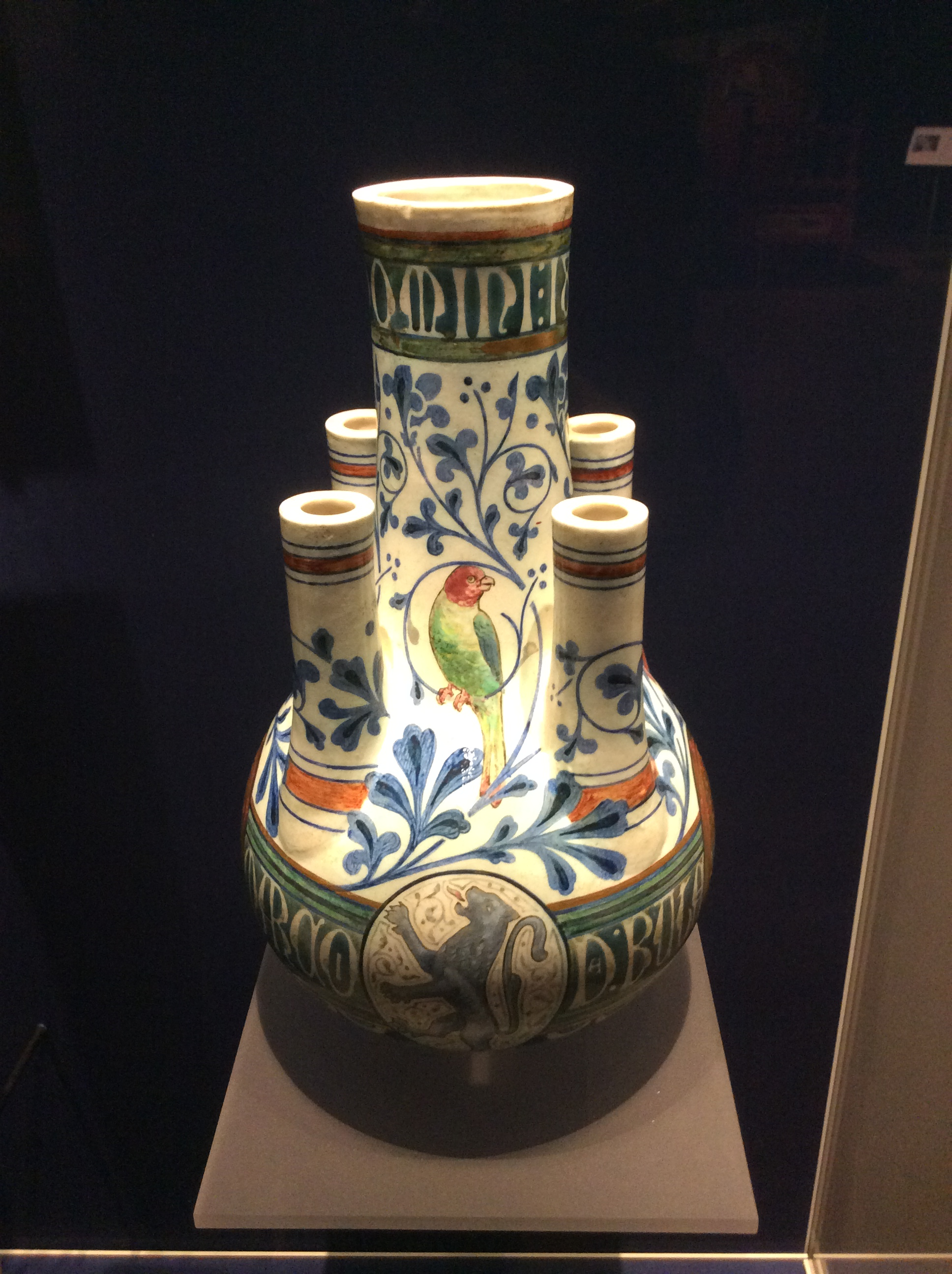 Tulip vase. By William Burges. Originally for the Summer Smoking Room at Cardiff Castle. Now in the Higgins Gallery and Museum, Bedford